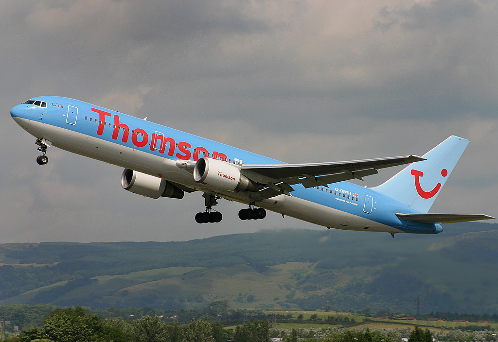 Thomsonfly Airlines Boeing 767-300 series flying out of Runway 23 at Glasgow International Airport, Scotland.